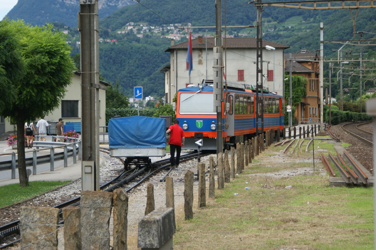 M8 is detached from Bhe 4/8 14 of the Monte Generoso Railway and hand-shunted to the shed. The track on which #14 waits continues to the lake boat station Capolago Lago (in the background). Photo taken from the end of the SBB platform